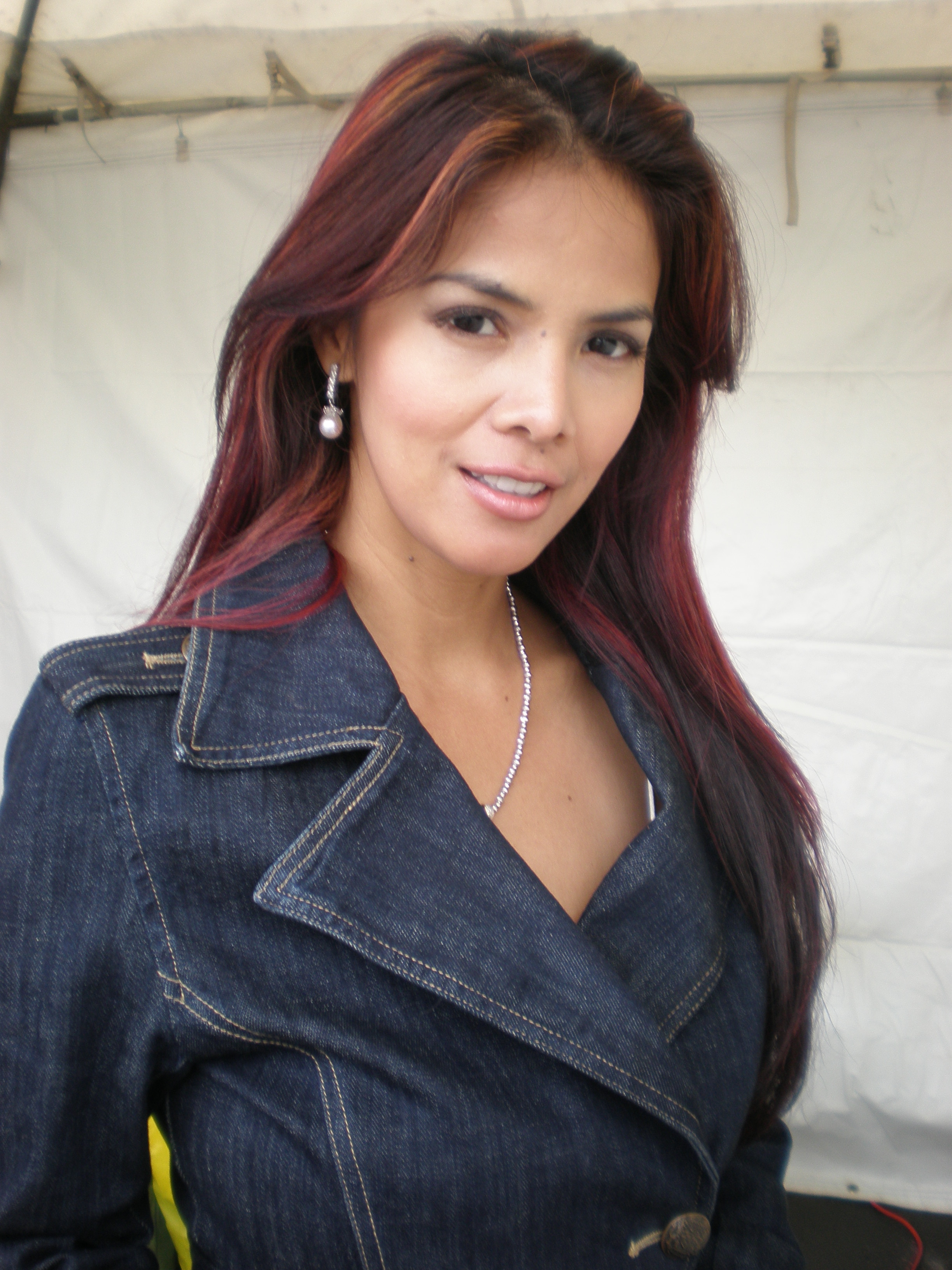 Patricia Javier at the 14th Annual Fil-Am Friendship Celebration at Serramonte Center in Daly City, California.